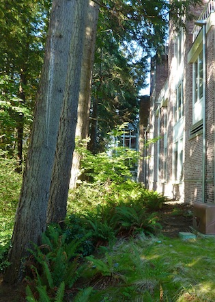 CK Choi Building at University of British Columbia. Image of rear/west elevation